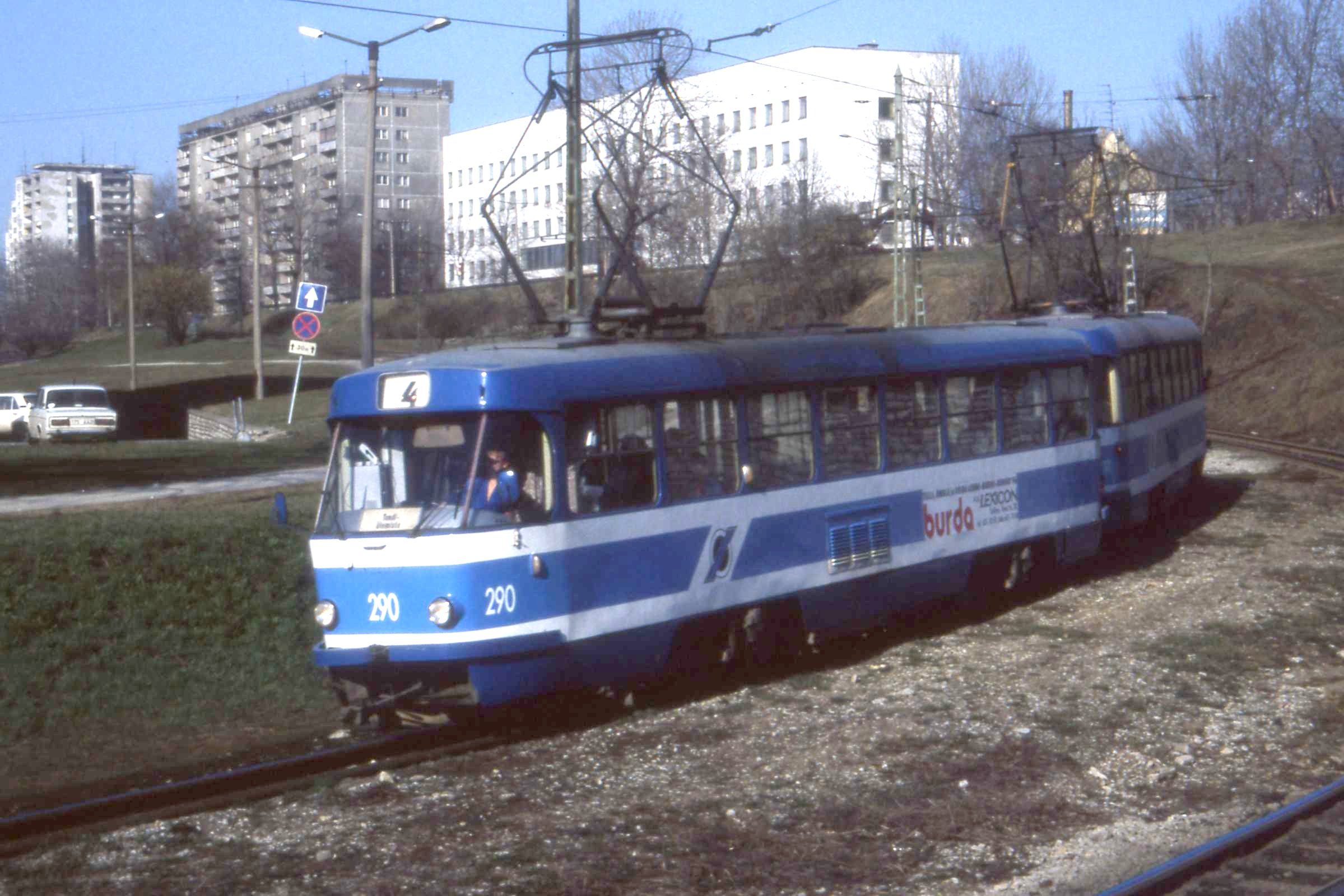 Tatra T4SU trams in Tallinn, Estonia